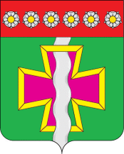 Coat of arms of Afipski, Severskaya Raion, Krasnodar Krai, Russia.